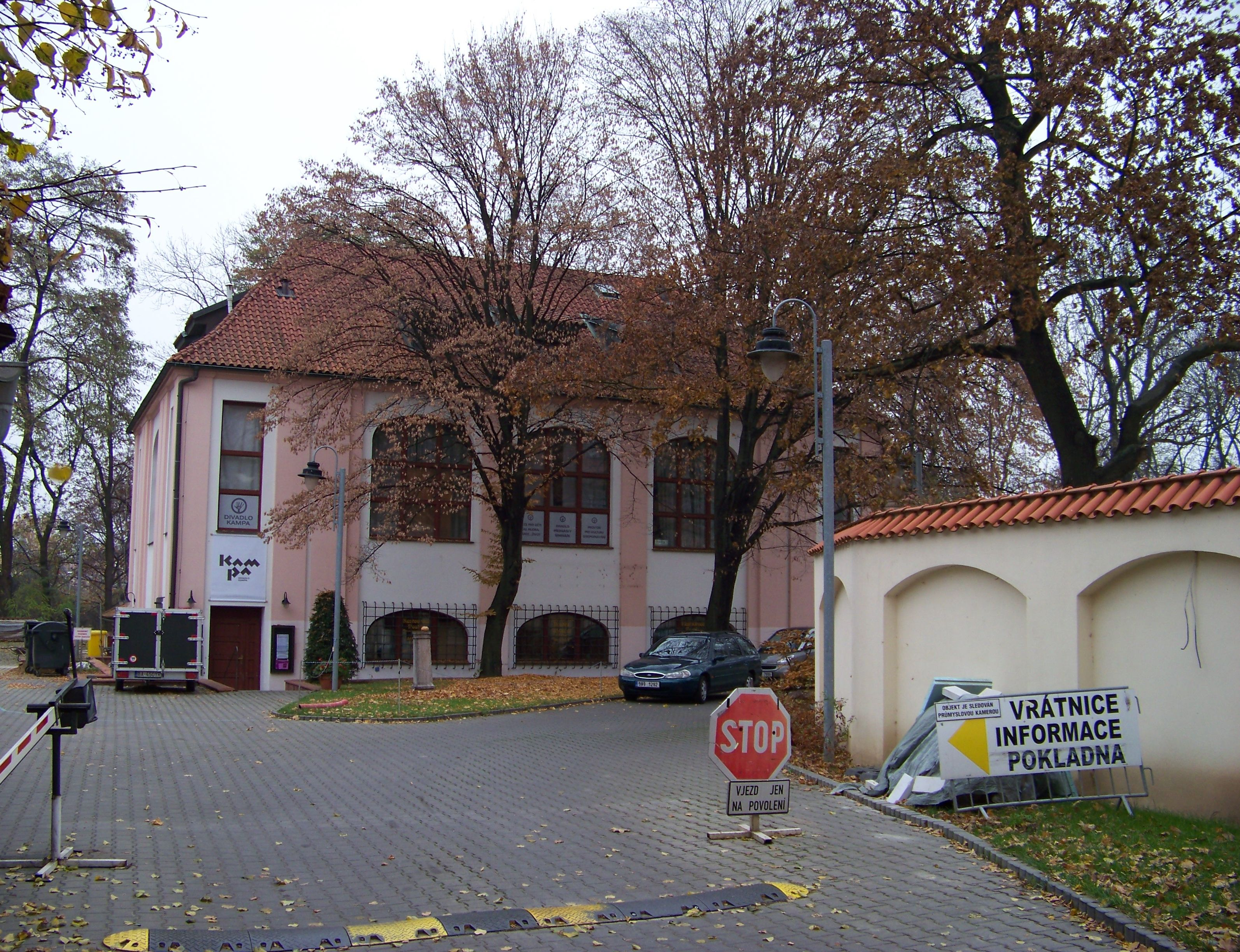 Prague-Malá Strana, the Czech Republic. Nosticova 634/2a. A theatre.